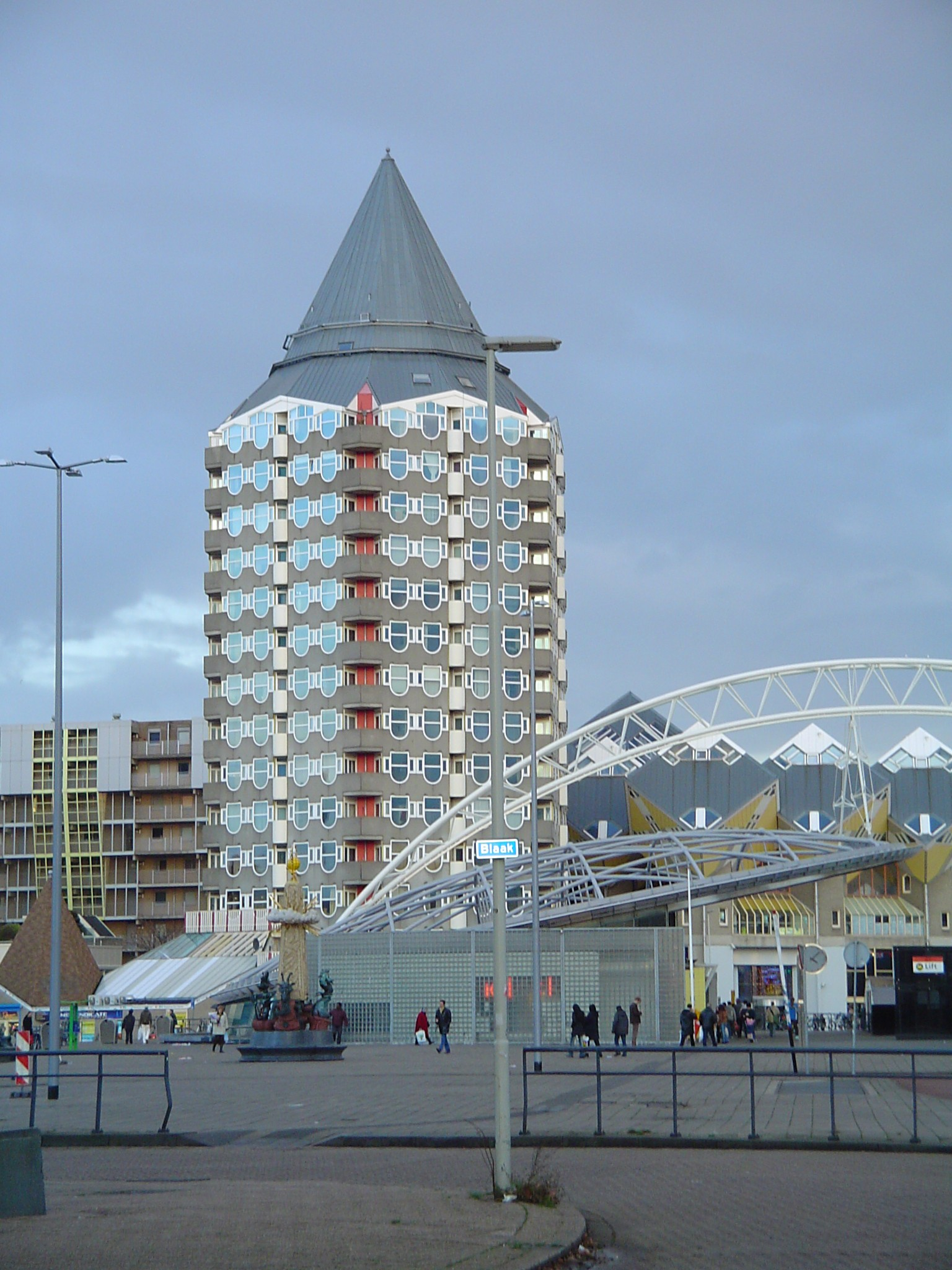 Pencil Building in Rotterdam, The Netherlands